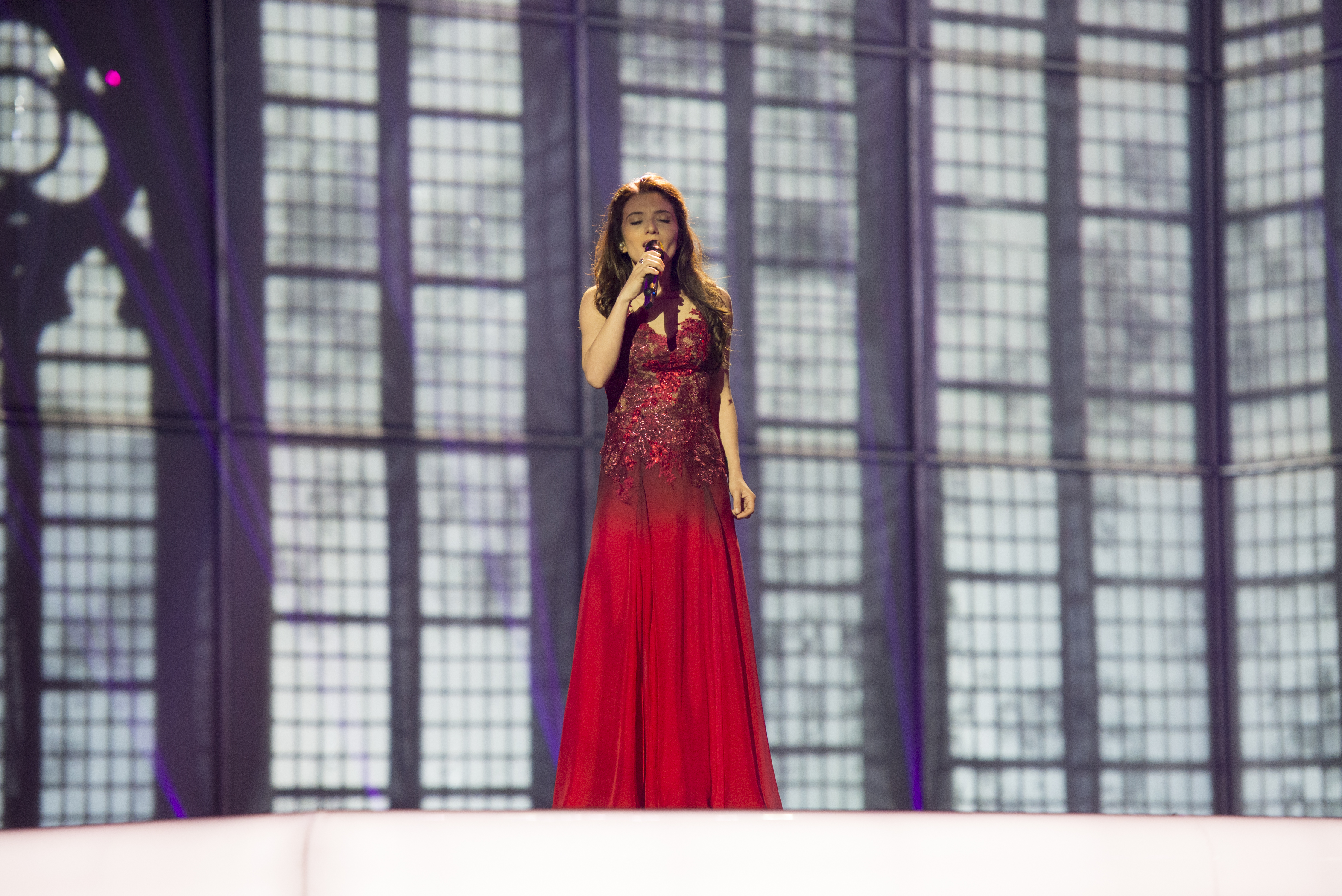 Dilara Kazimova representing Azerbaijan with the song "Start a Fire" during the first dress rehearsal of the first semi final of the Eurovision Song Contest 2014 Copenhagen. (Help translate this text)